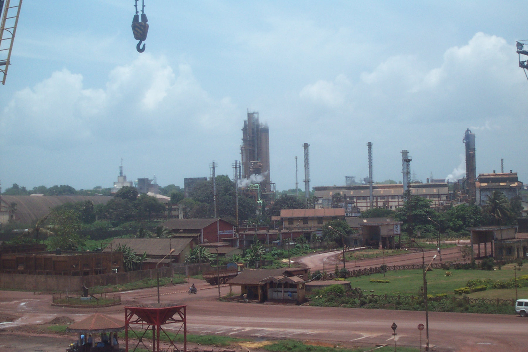 This is the famous Mangalore Chemicals & Fertilizers plant in Mangalore.View from our Balcony - Industrial Mangalore